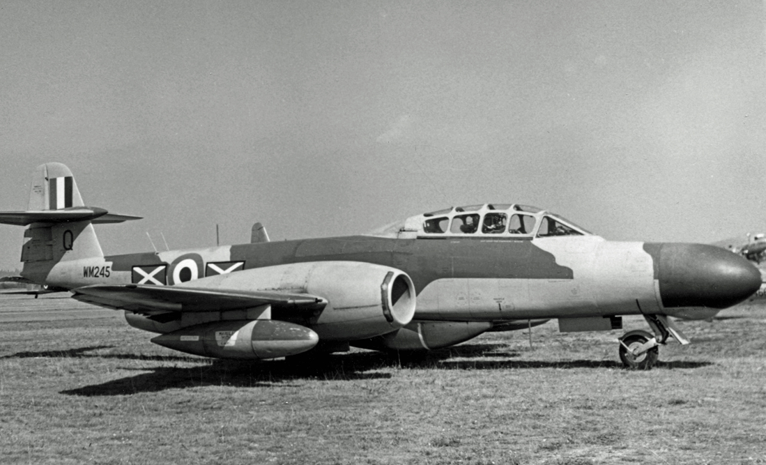 Gloster Meteor NF.11 of 151 Squadron RAF based at Leuchars, Fife, Scotland, visiting Blackbushe Airport, Hants, in September 1955.